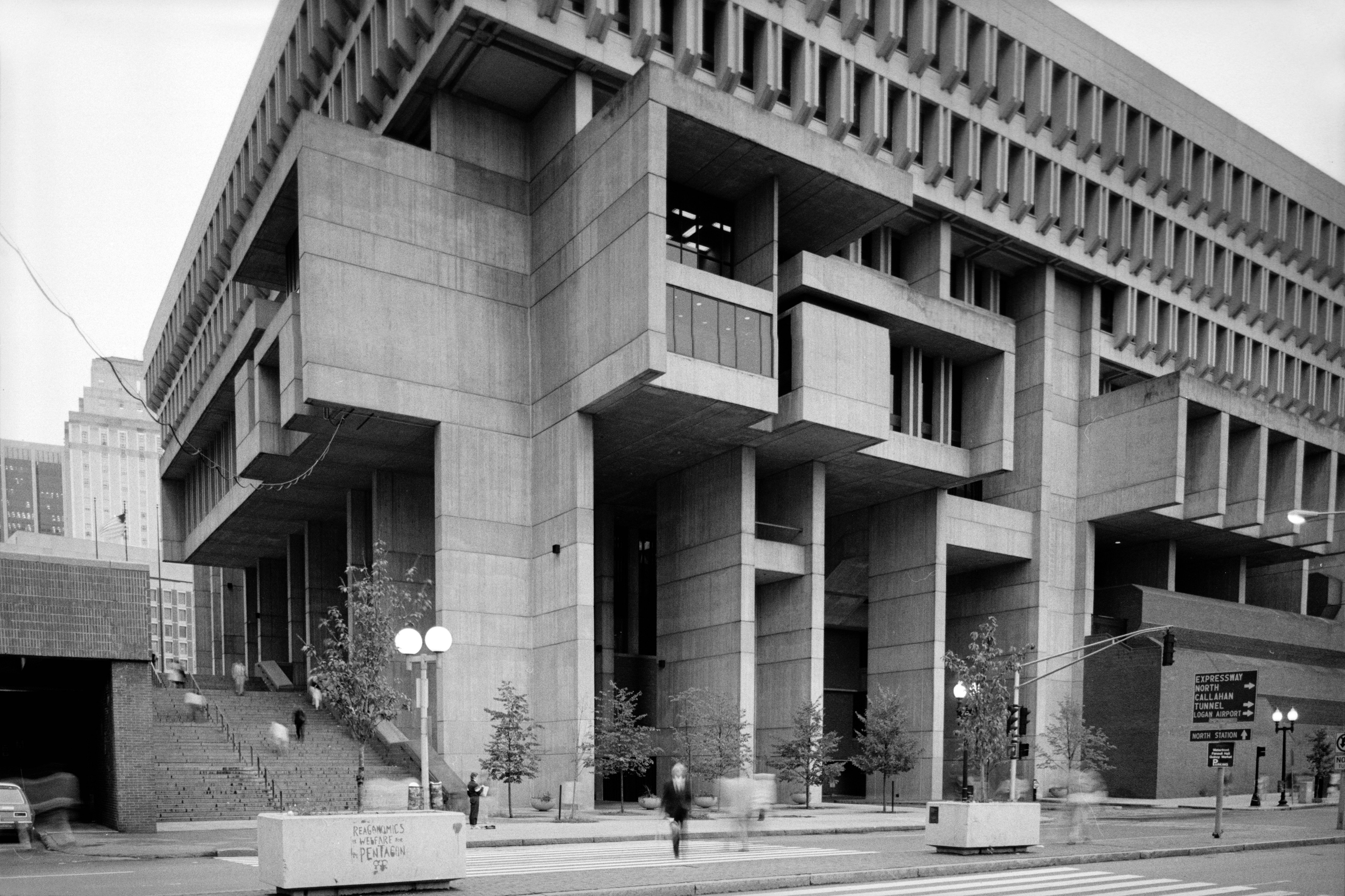 Boston City Hall, Boston, Massachusetts Stencil on the left plant pot: "Reaganomics is welfare for the Pentagon"